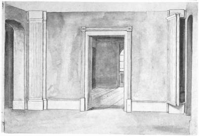 Entrance to a priest hole at Partingdale House in Middlesex, England.